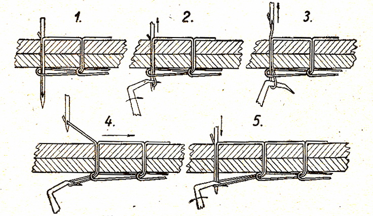 Formation of single-thread chainstitch